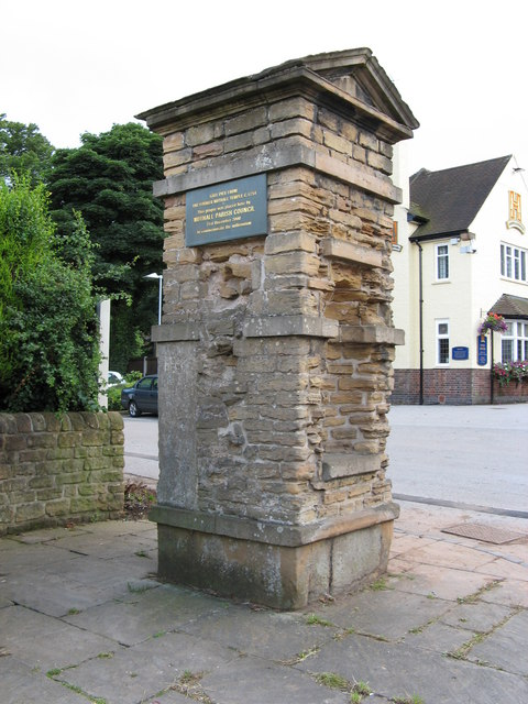 Nuthall Temple entrance gate pillar This is the gate pillar at the entrance of what used to be Nuthall Temple. Nuthall Temple was a large country house that was located approximately where J26 of the M1 now is. In the background of the picture is "The Three Ponds" pub.